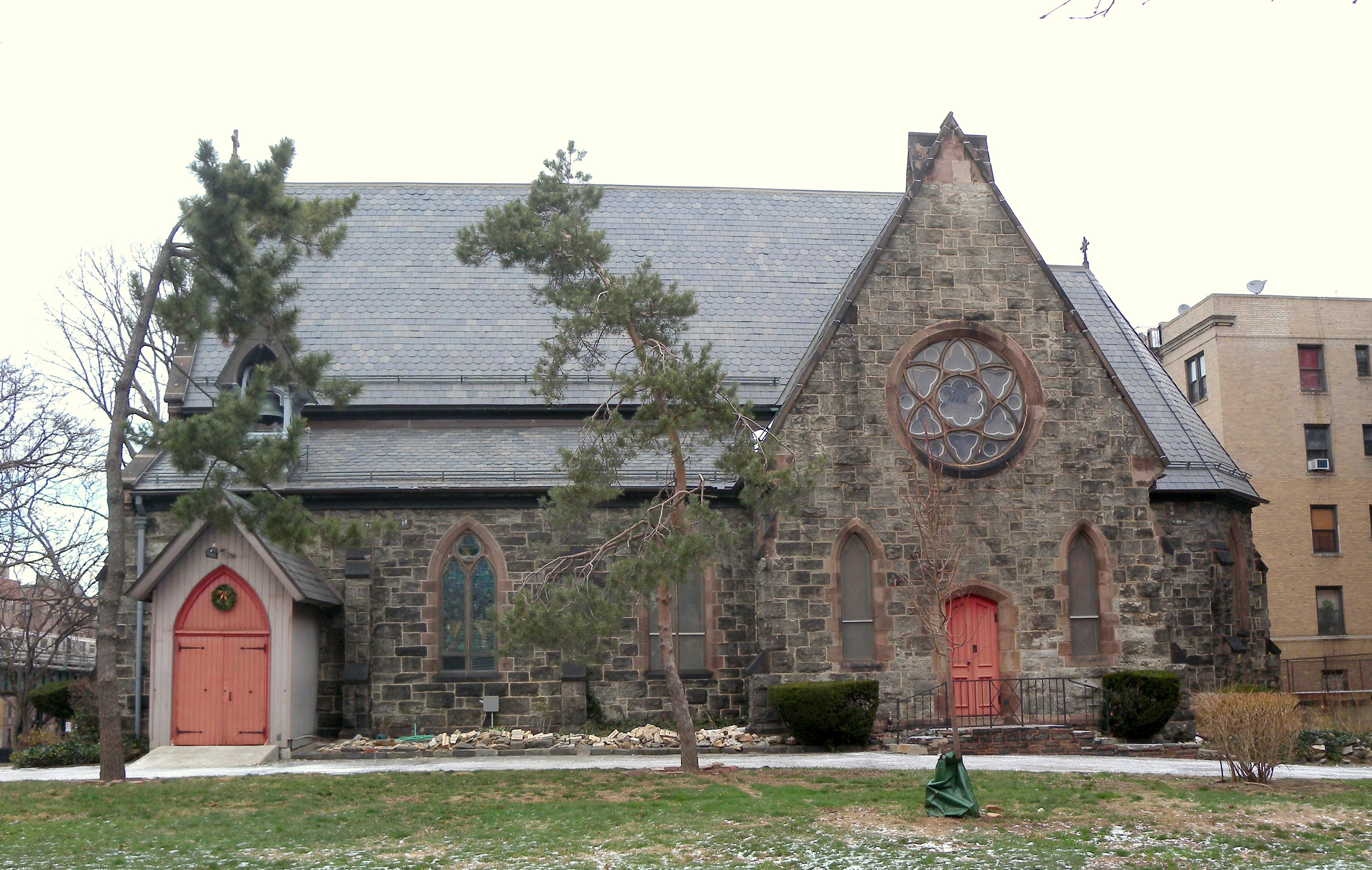 Looking north at St James' on a cloudy midday.